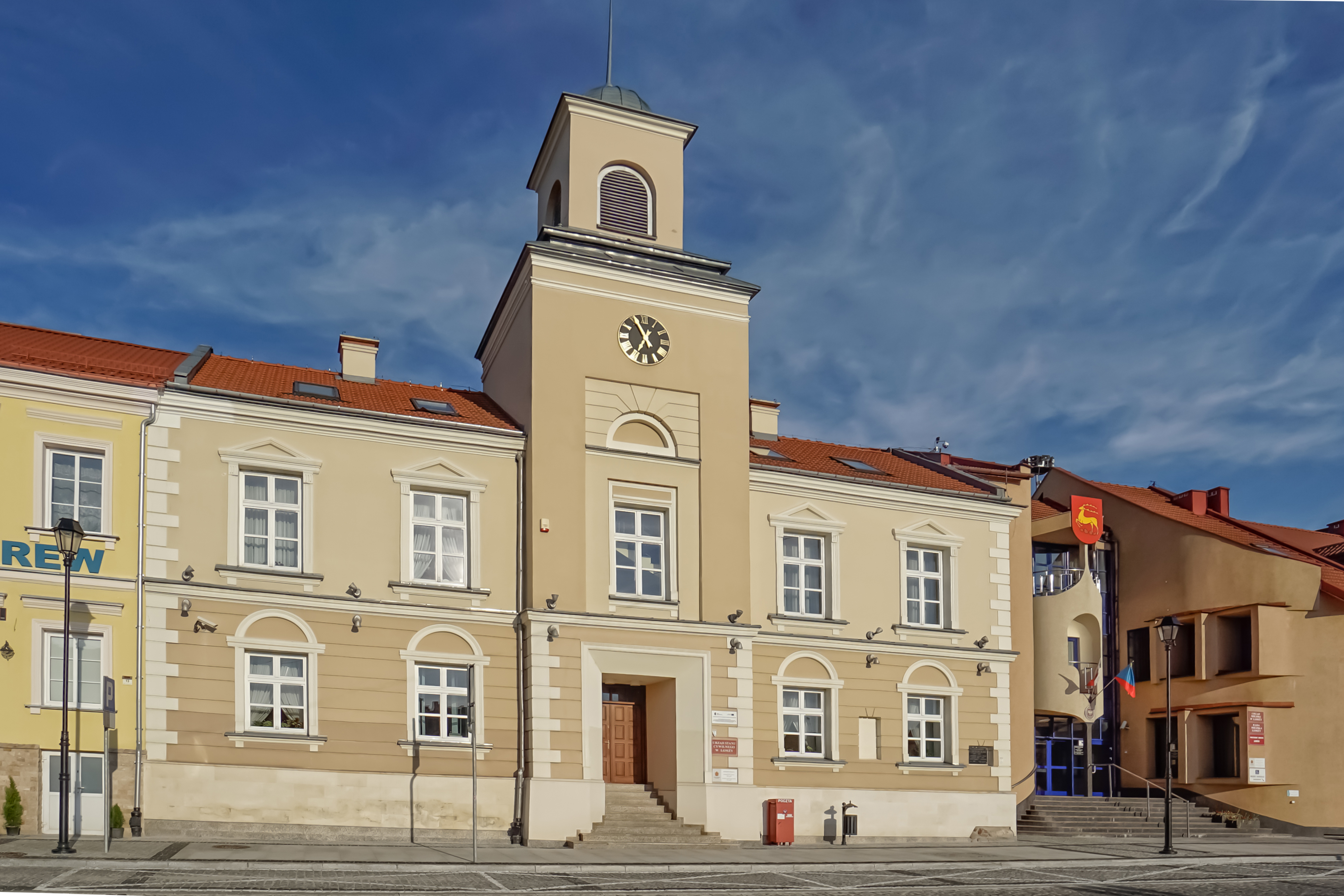 Town hall in Łomża (Poland) 11.1985.